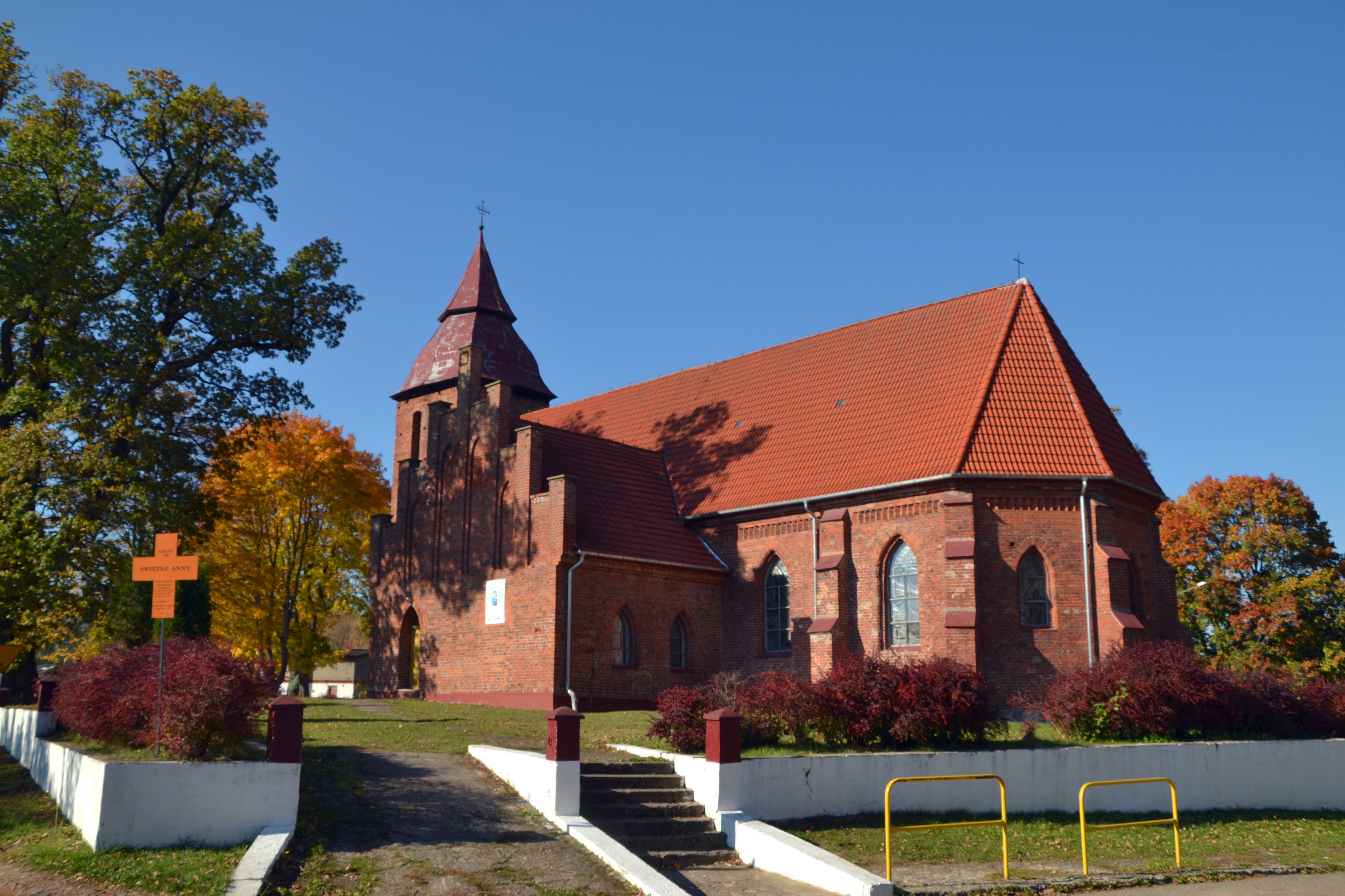 Barcino, Poland: Church